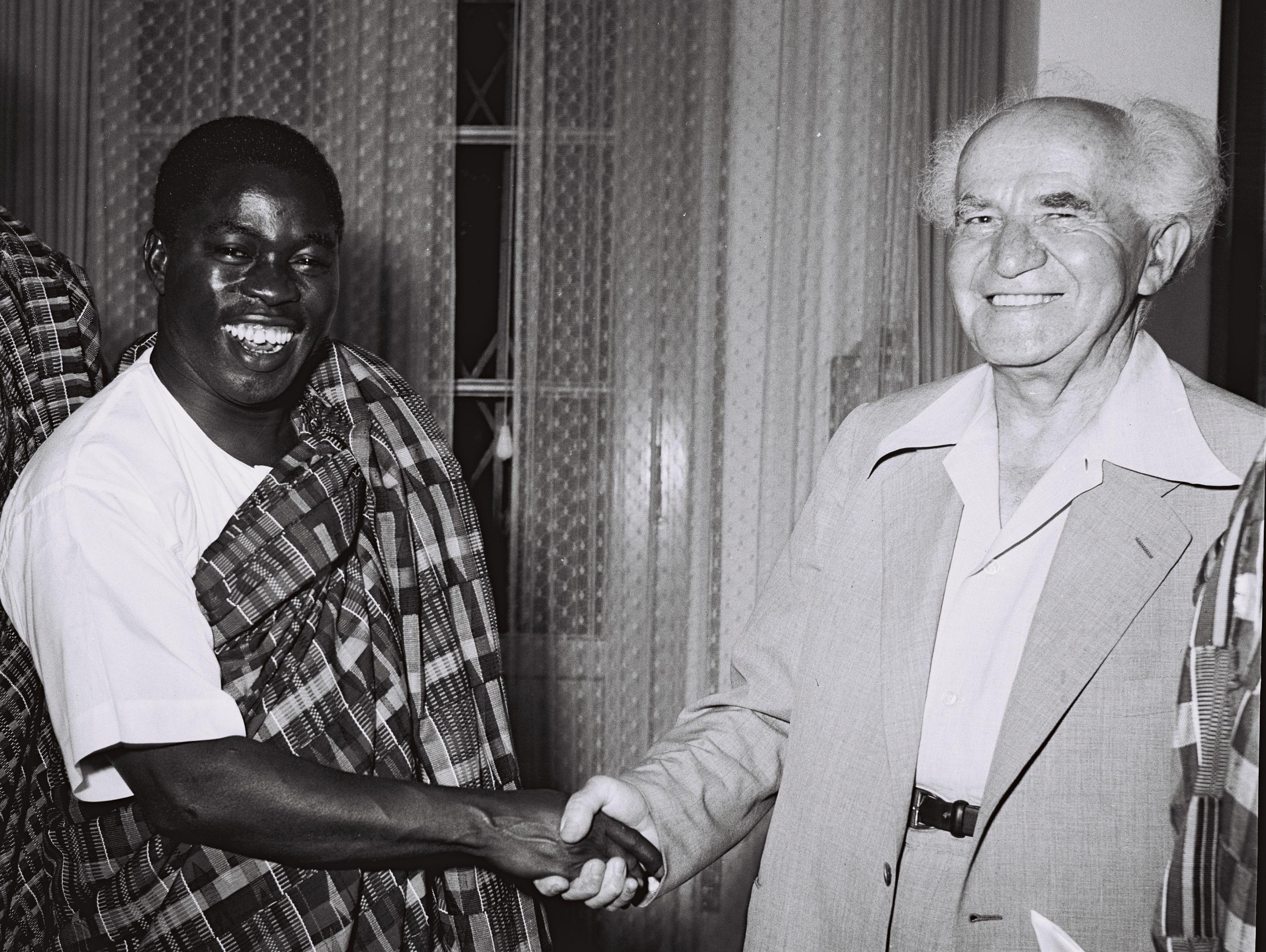 Krobo Edusei visiting David Ben-Gurion in Tel Aviv